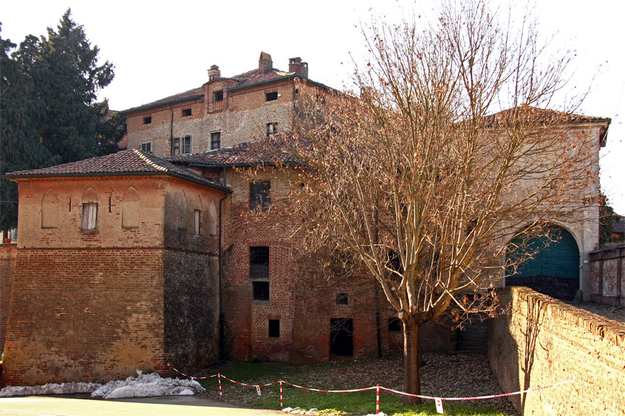 Castle, Vinzaglio, Novara, Italy